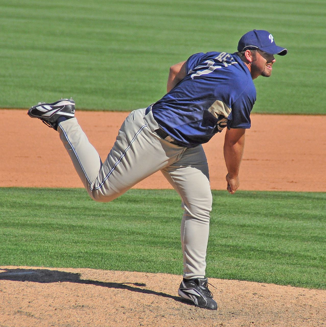 Heath Bell